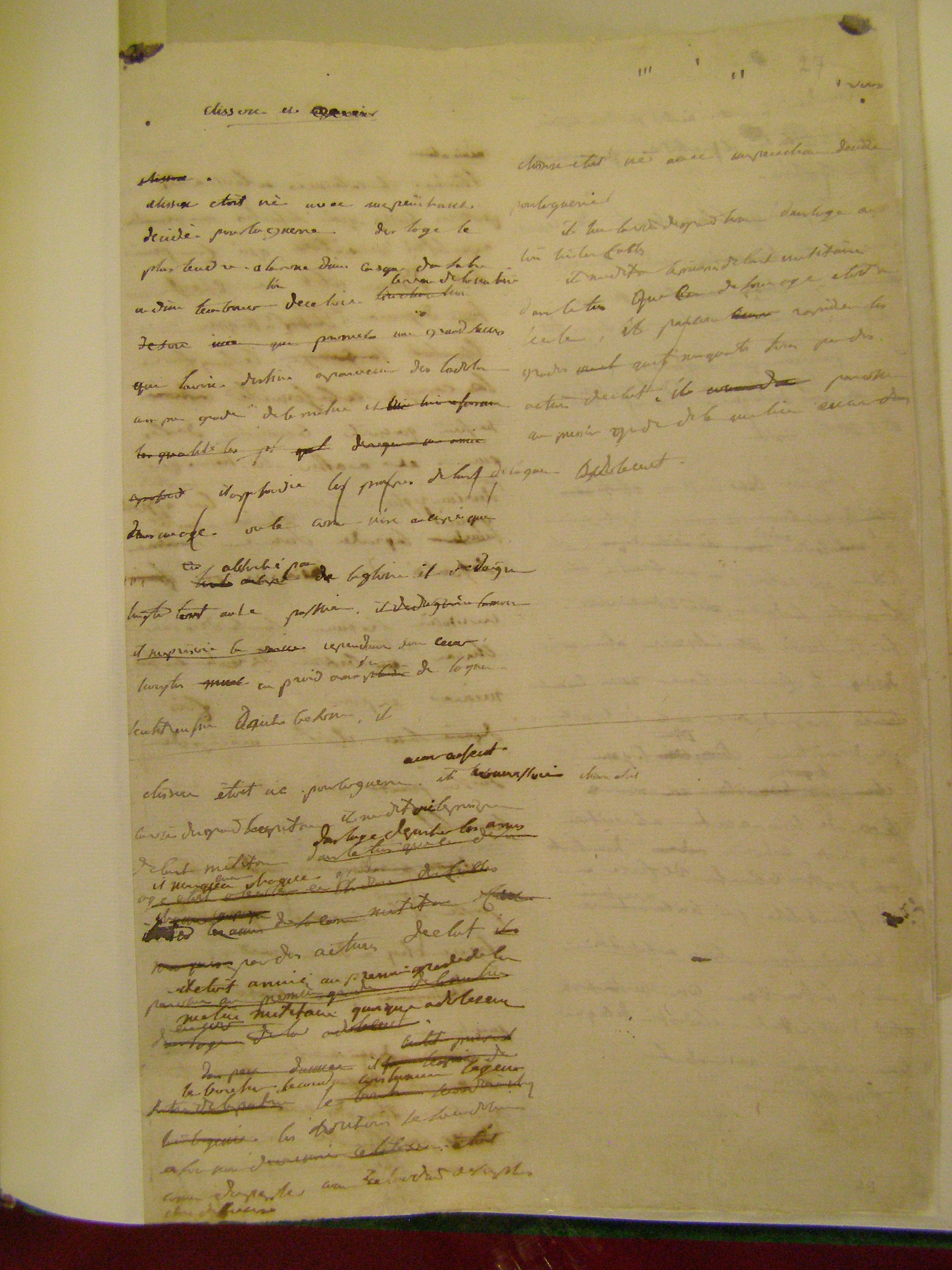 Kórnik - the manuscript of "Clisson et Eugénie" (1795) by Napoleon I Bonaparte, from the archives of the Kórnik Library